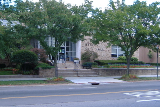 Former Bexley City Hall, Bexley, Ohio.